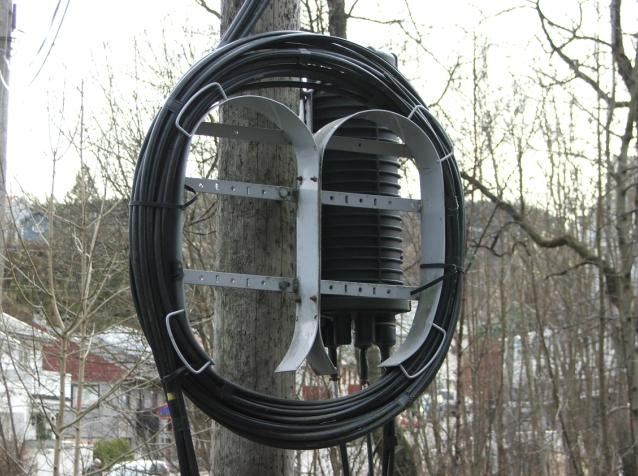 Fiber splice box mounted on pole.